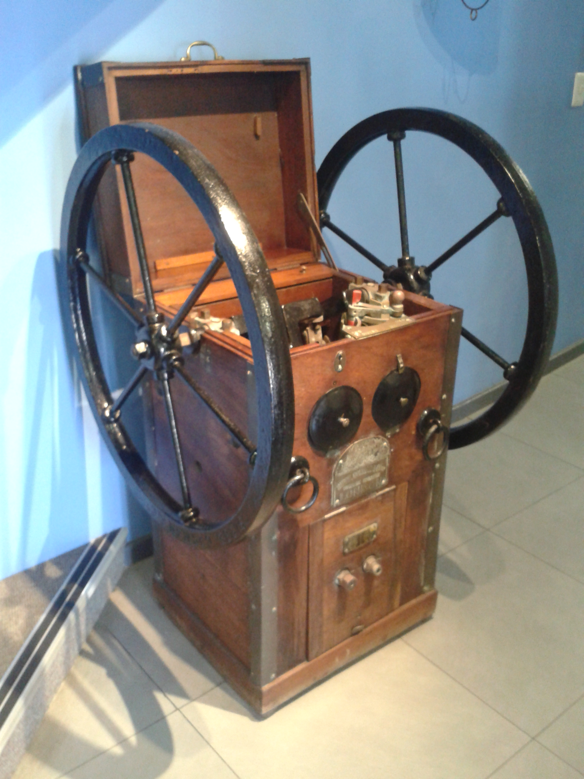 Manual air pump for Standard diving equipment - side view